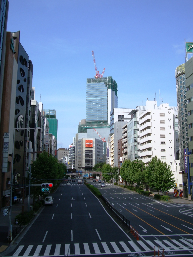 Route 246, Aoyama-dori, at Aoyama, Tokyo